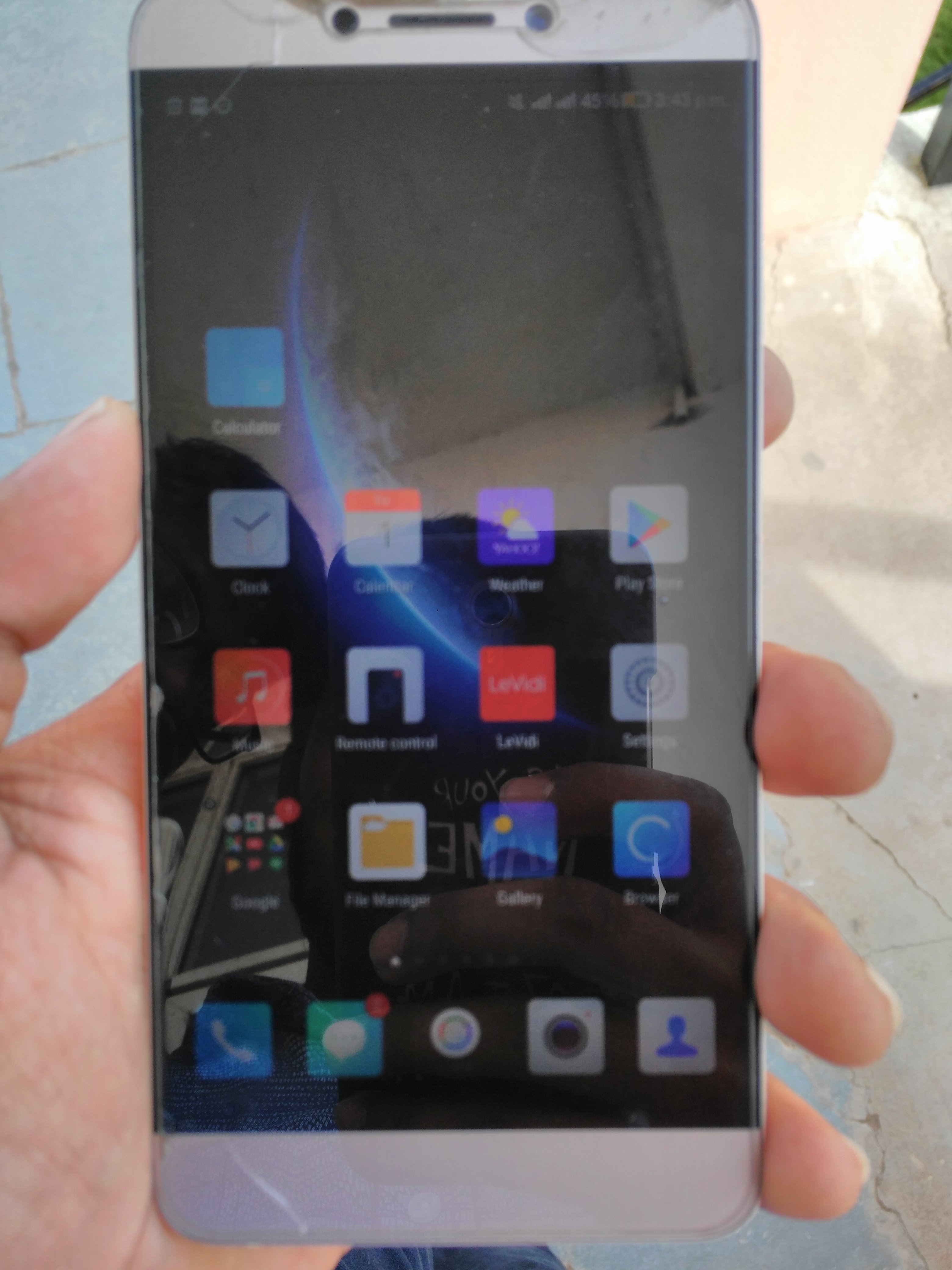 letv 1s